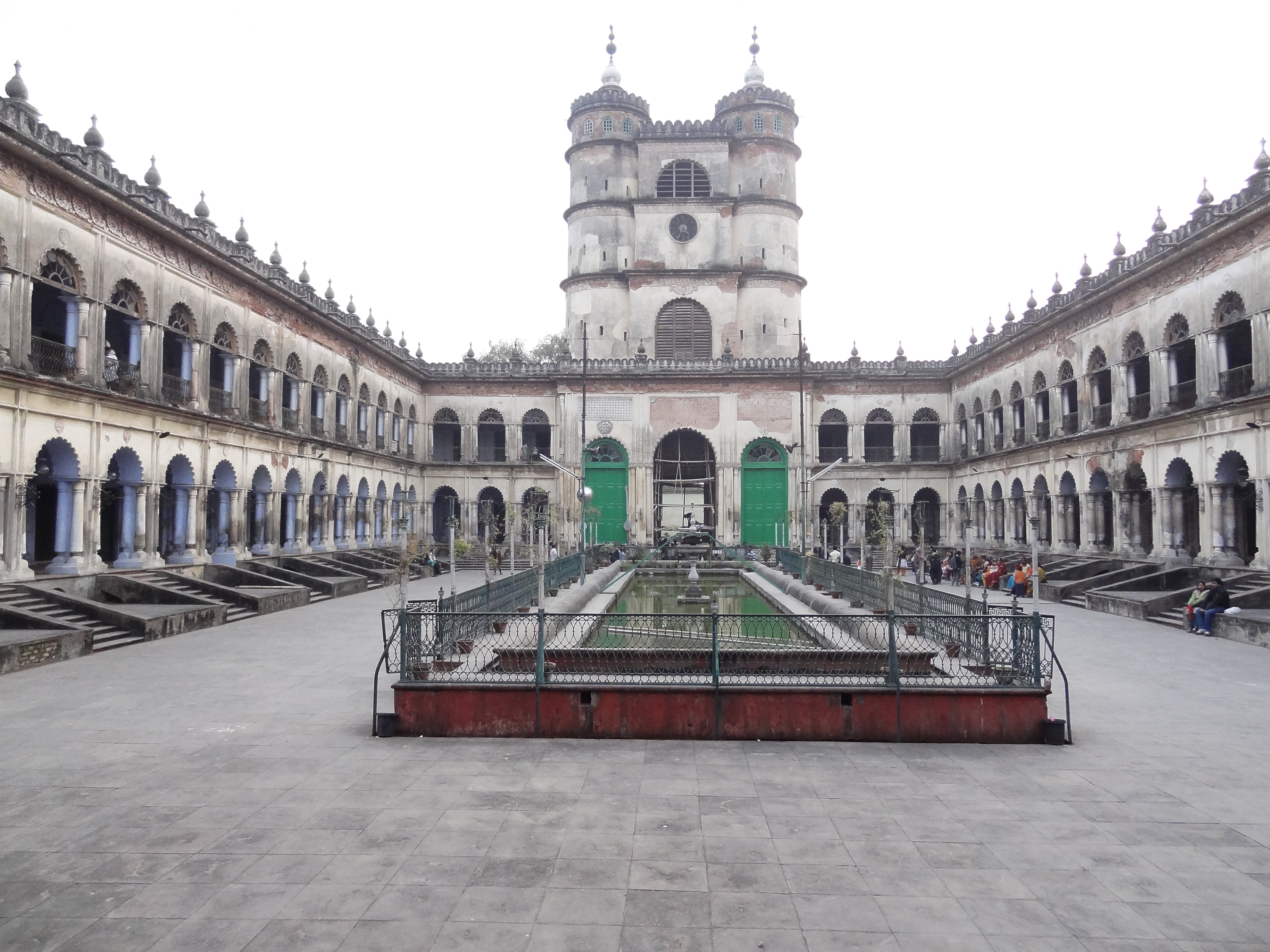 Hooghly Imambara Courtyard, Hooghly, West Bengal